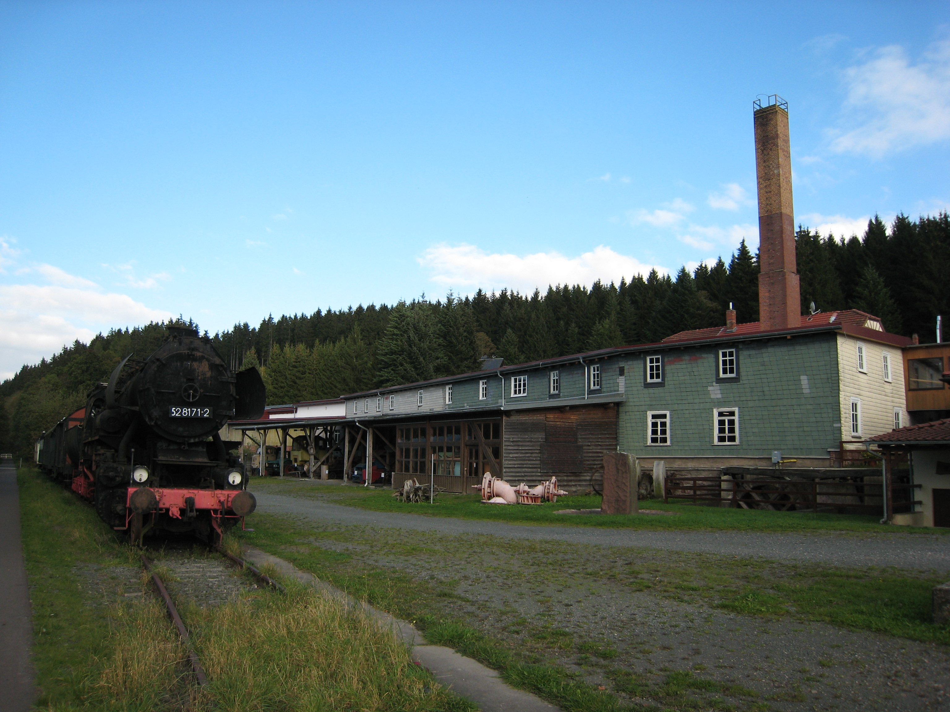 Lohmühle (Tambach-Dietharz).